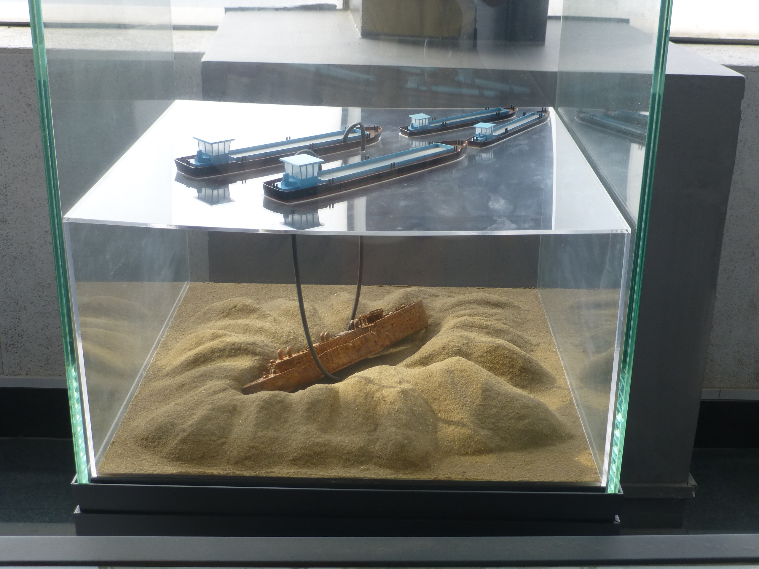 Lifting of gunboat Zhongshan from the bottom of the Yangtze. Models in the Zhongshan Warship Museum